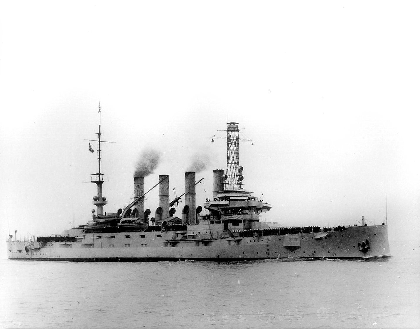 USS North Carolina (ACR-12) - Official US Navy photo taken from NavSource (